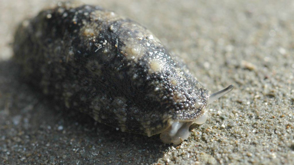 Sea Snail Onchidella sp. at the Murrays Bay, Auckland.